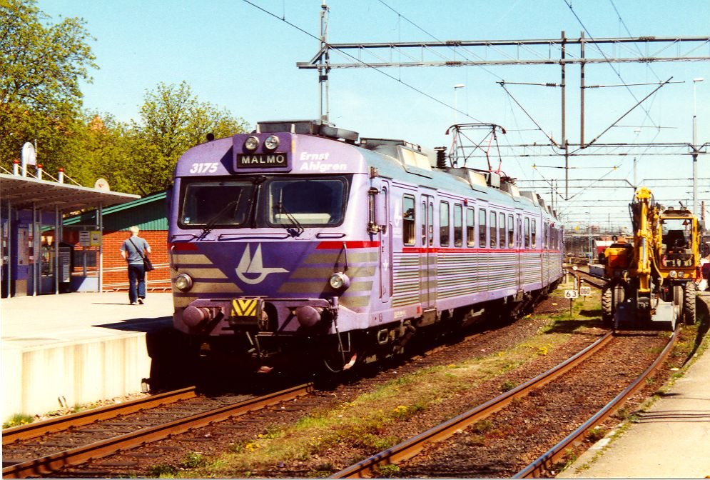 Description: X11 3175 in Ystad. Author: Olaf Just Source: Olaf Just Date: Mai 2001